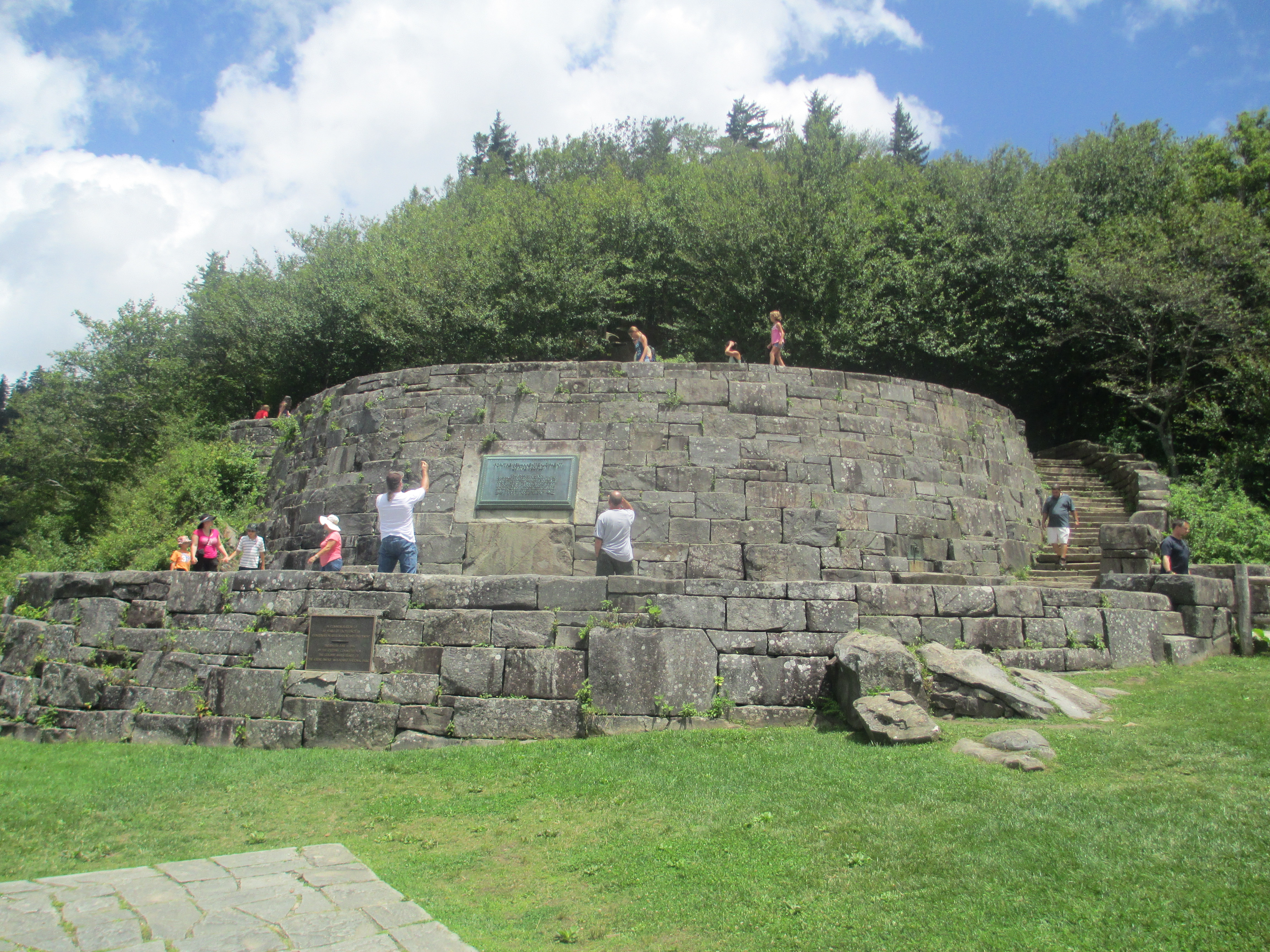 I took photo of Rockefeller Memorial at Newfound Gap with Canon camera.